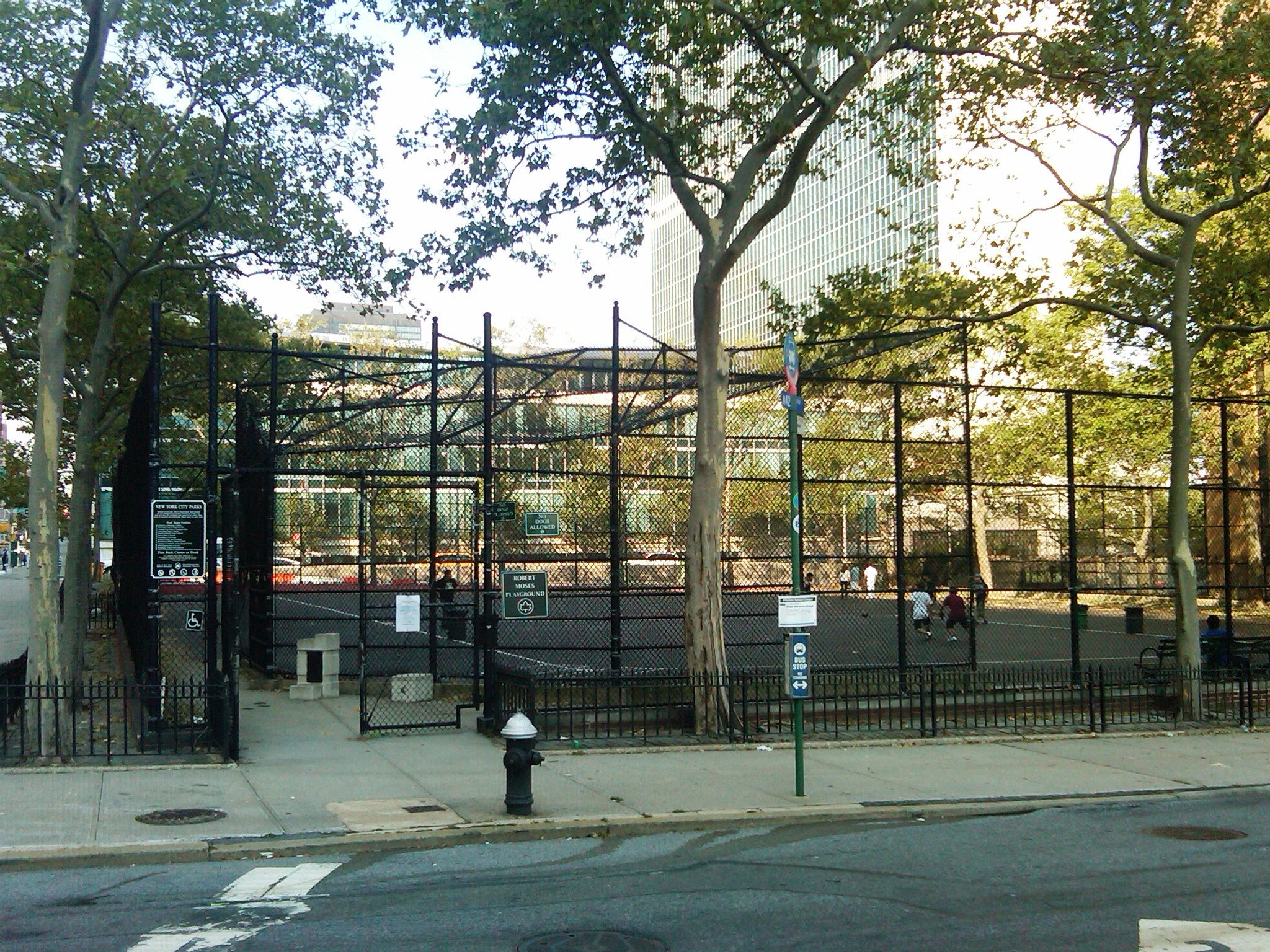 Entrance to Robert Moses Playground at First Avenue and East 41st Street